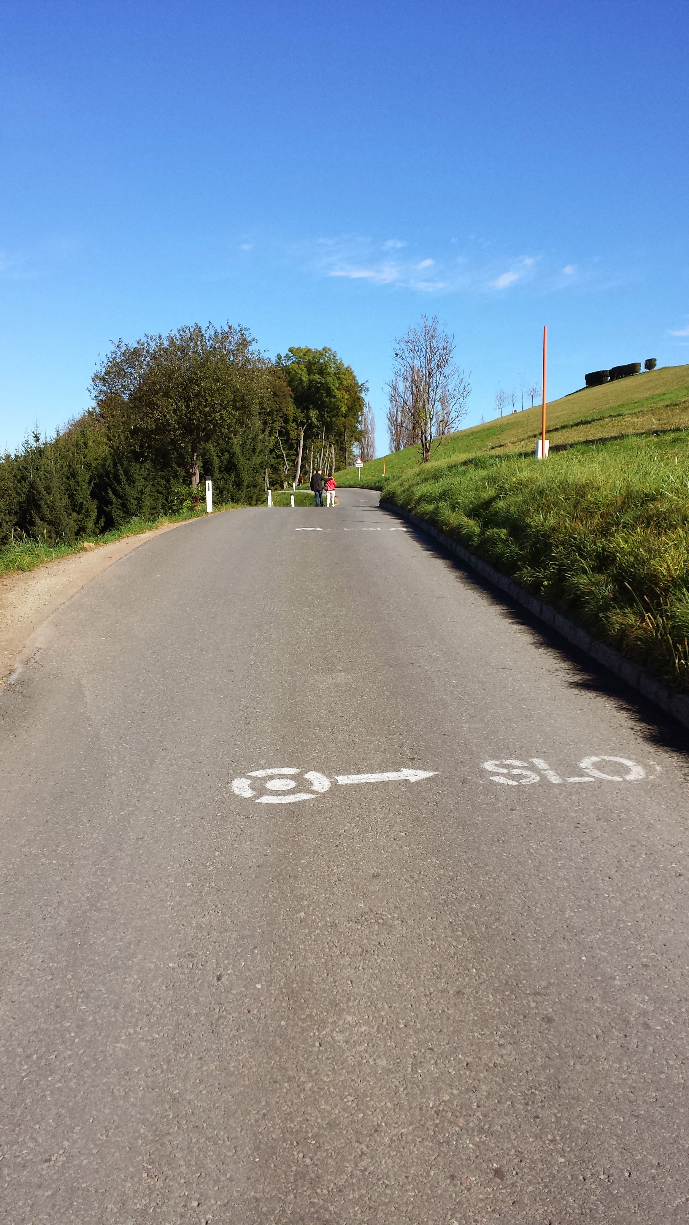 The Grenzland-Weinstraße in Ehrenhausen an der Weinstraße. At some sections the road itself constitute the border between Austria and Slovenia (in this image it is marked with white dots on the street surface).